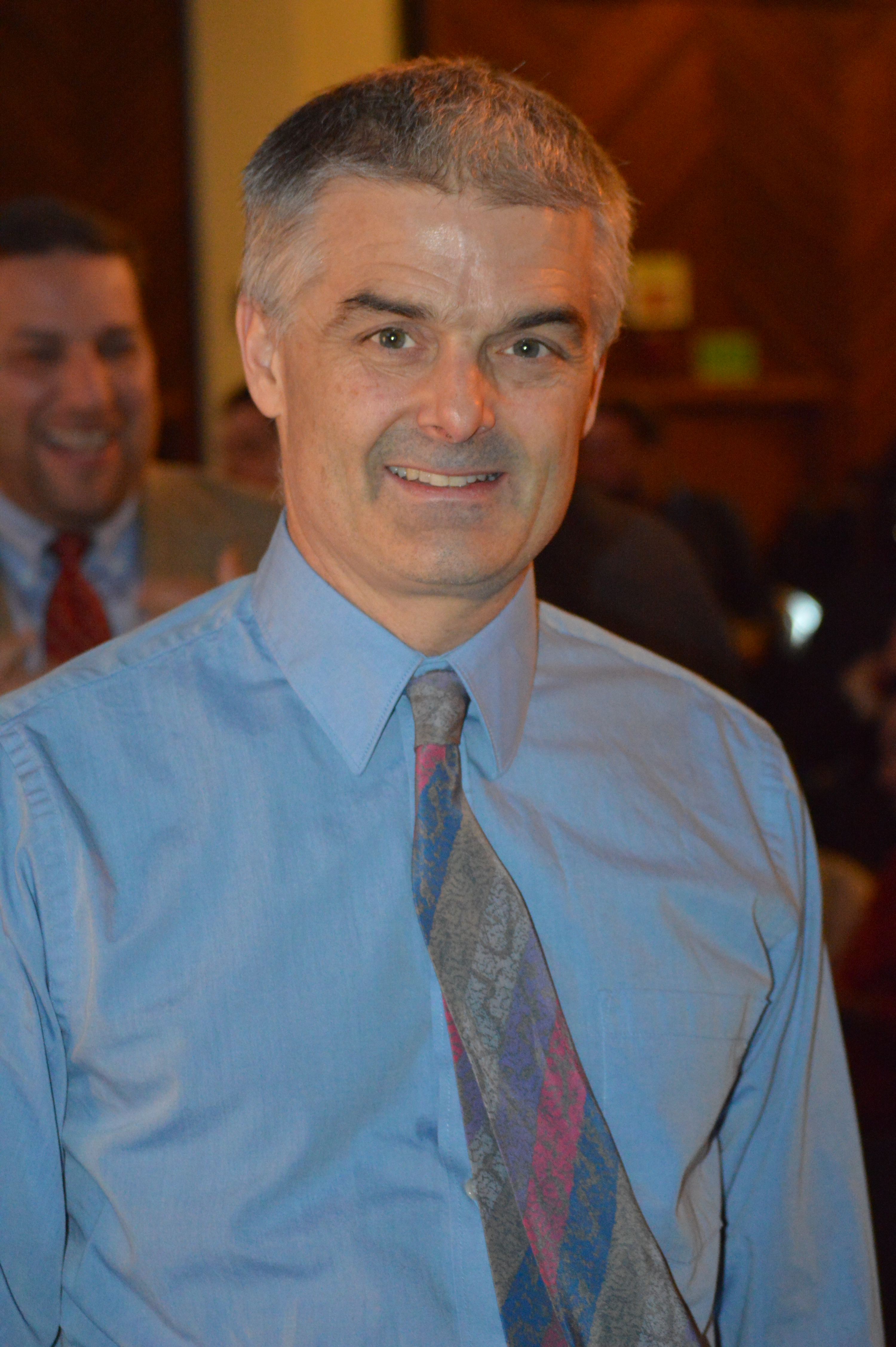 Jonathan Bergmann speaking at the 8o Congreso de Innovación y Tecnología Educativa at ITESM Campus Monterrey